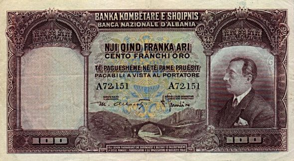 100 Franka banknote, Albania, 1926 with a picture of the albanian leader Ahmet Zogu The institution, which was eventually the copyrhight holder (Banka Kombetare in Rome) do not exist since 1944.